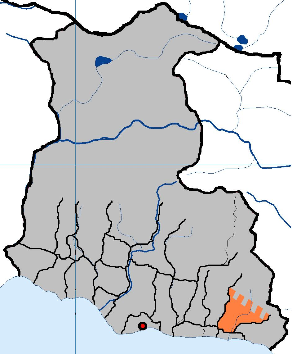 Map showing the location of the village Ankhua in Abkhazia.